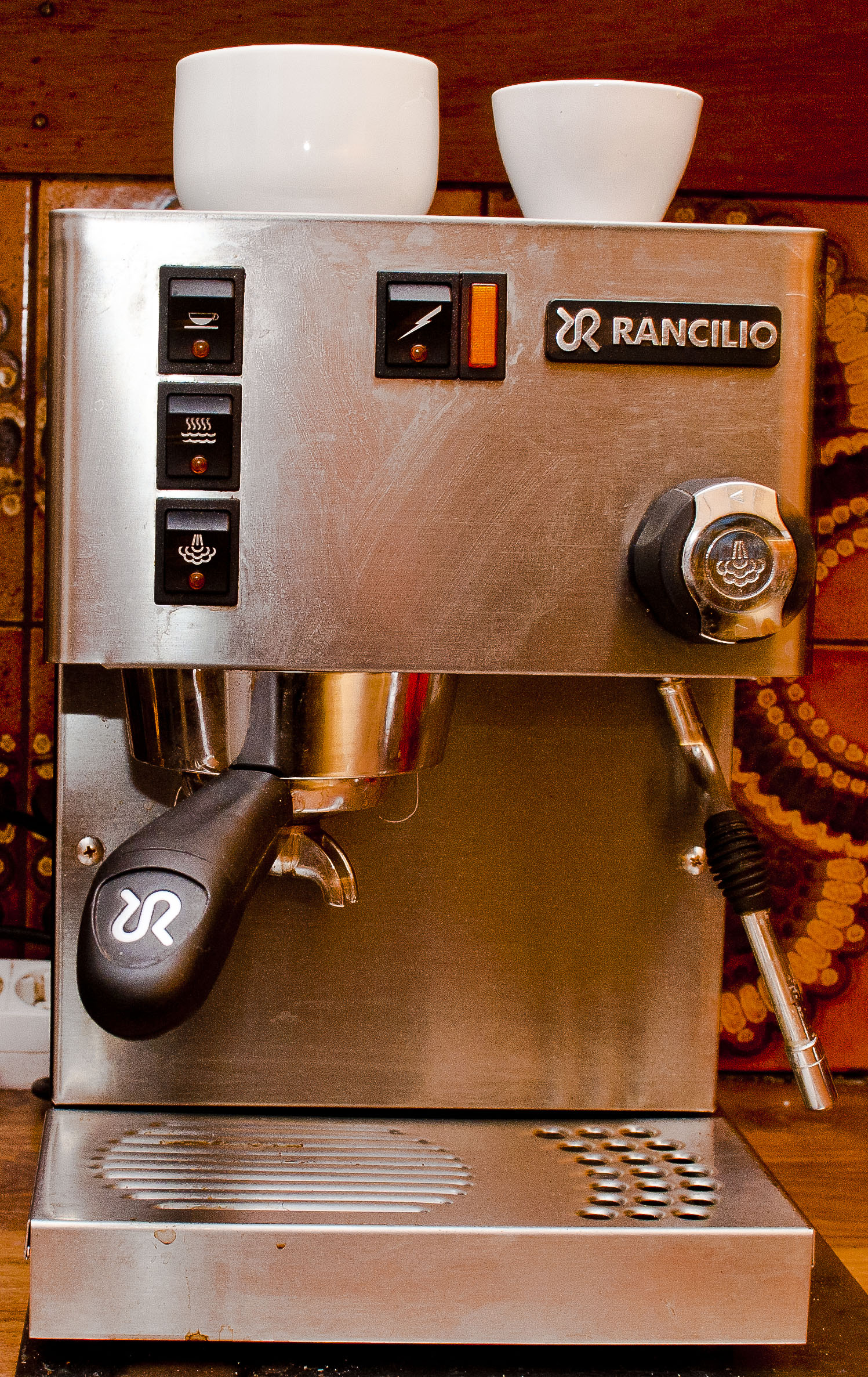 Rancilio Silvia consumer grade advanced Espresso machine